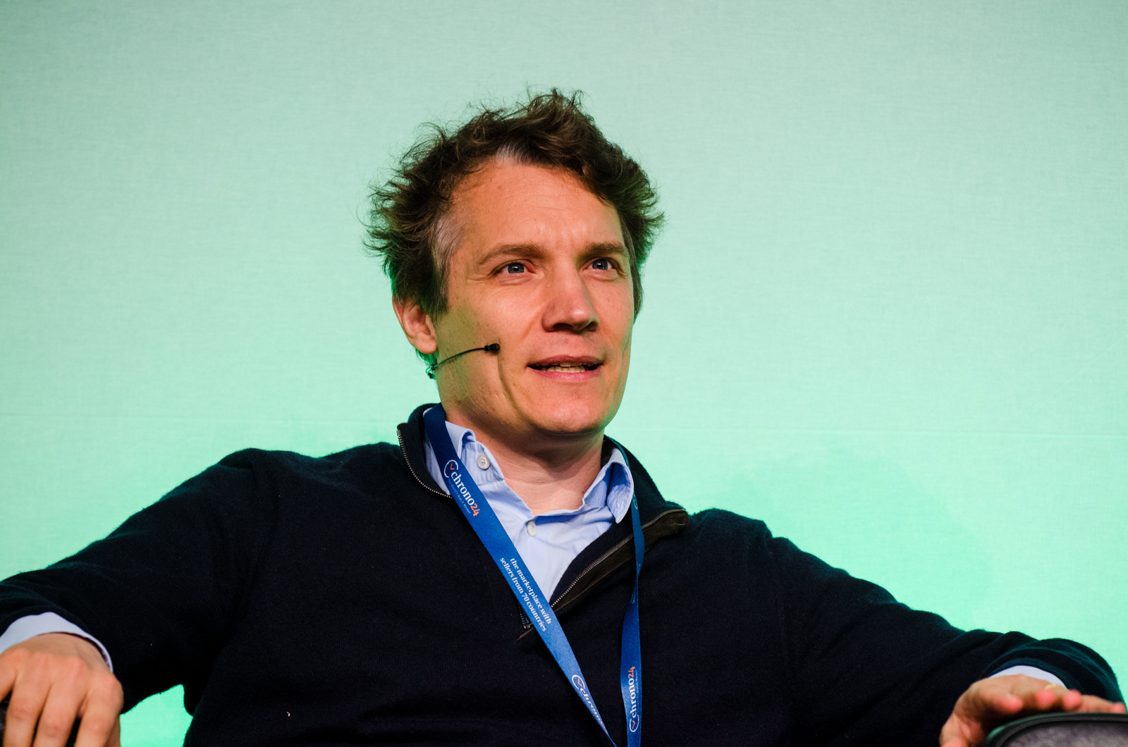 Oliver Samwer in London, England, Thursday, 14th November 2013. NOAH Conference at Old Billingsgate. Image by Dan Taylor/Heisenberg Media